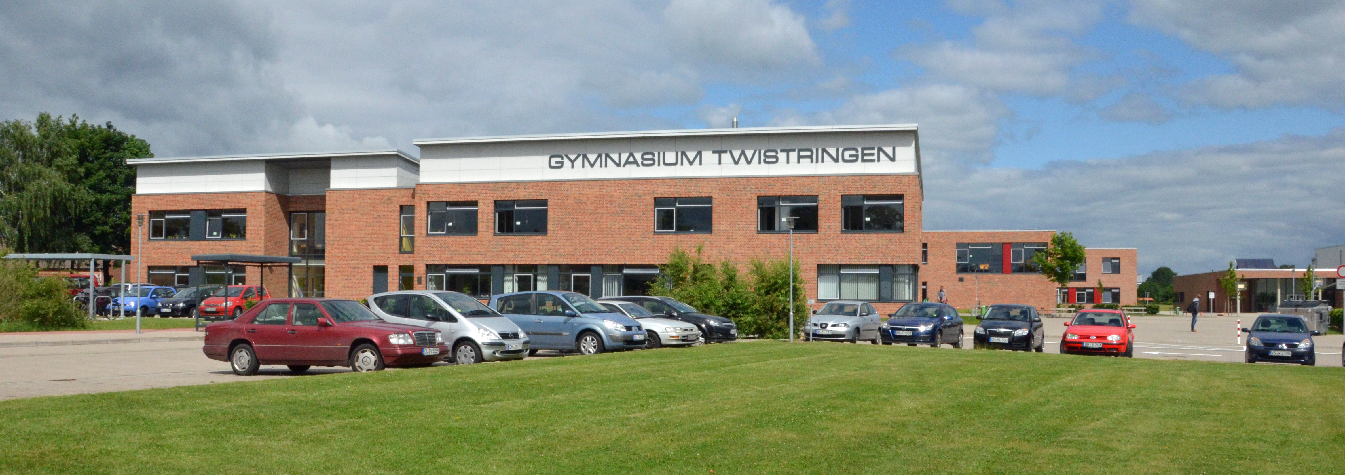 Gymnasium Twistringen